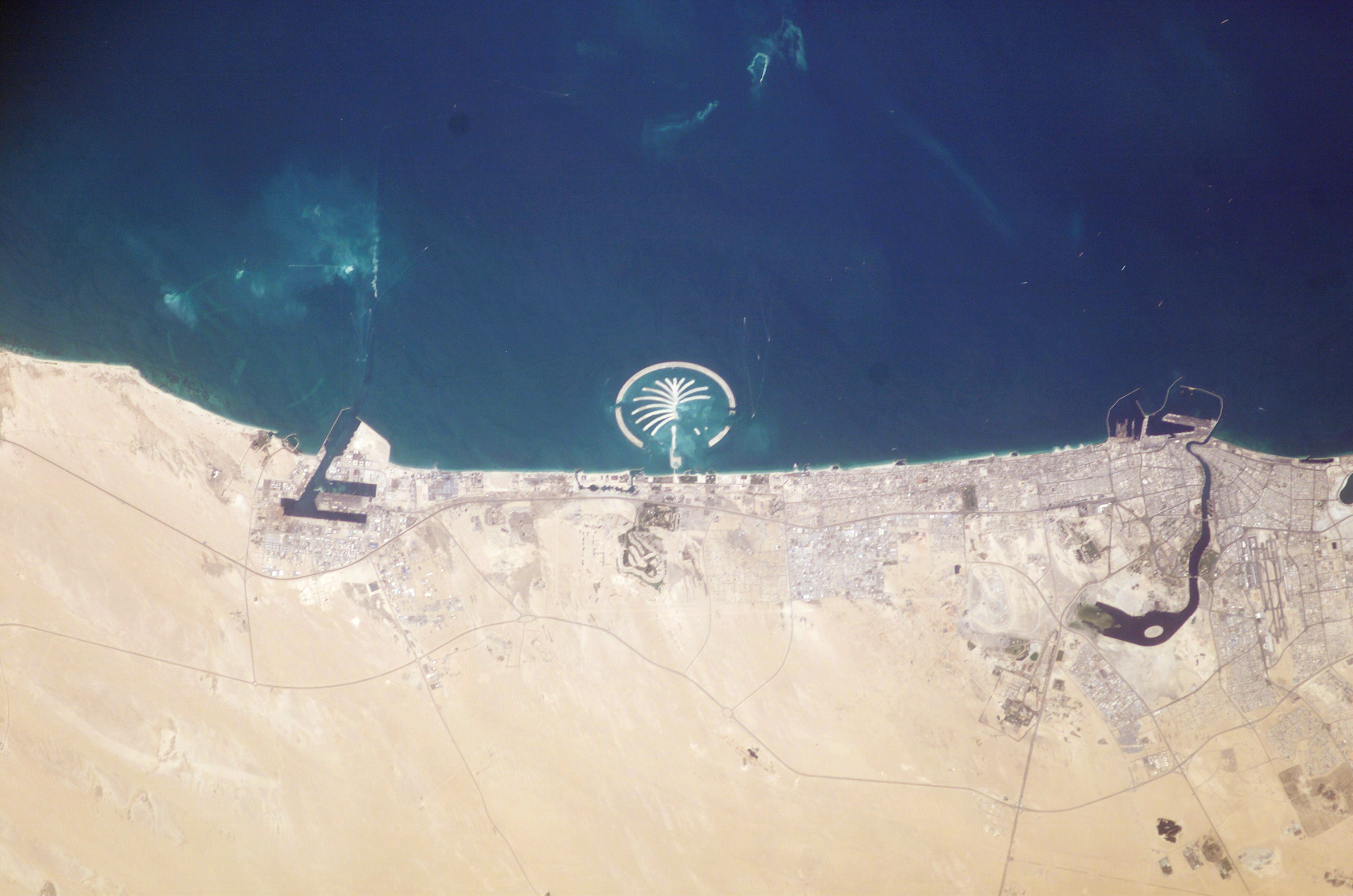 Sometimes, what looks like a palm tree from orbit is, well, a palm tree. Palm Island Resort, just 1 mile off the coast from Dubai, is scheduled to be complete by 2006. Advertised as “being visible from the Moon” this man-made structure will have 17 huge fronds surrounded by a crescent-shaped breakwater. This island is being built from 80 million cubic meters (2.8 billion cubic feet) of land dredged from the approach channel to the Emirate’s Jebel Ali port, which is being deepened to 17 meters (56 feet). Sediments in the water from dredging activity can be seen near the port. Palm Island is one of several massive projects in Dubai aimed at diversifying the economic base by expanding the tourist industry. The government of Dubai predicts that tourism, mostly from Europe, will quadruple to 15 million visitors annually by 2010. When completed the resort will have approximately 1200 single-family residences each with private beachfront, 600 multi-family residences, an aquatic theme park, shopping centers, cinemas, and more. A twin island is planned to be built nearby.